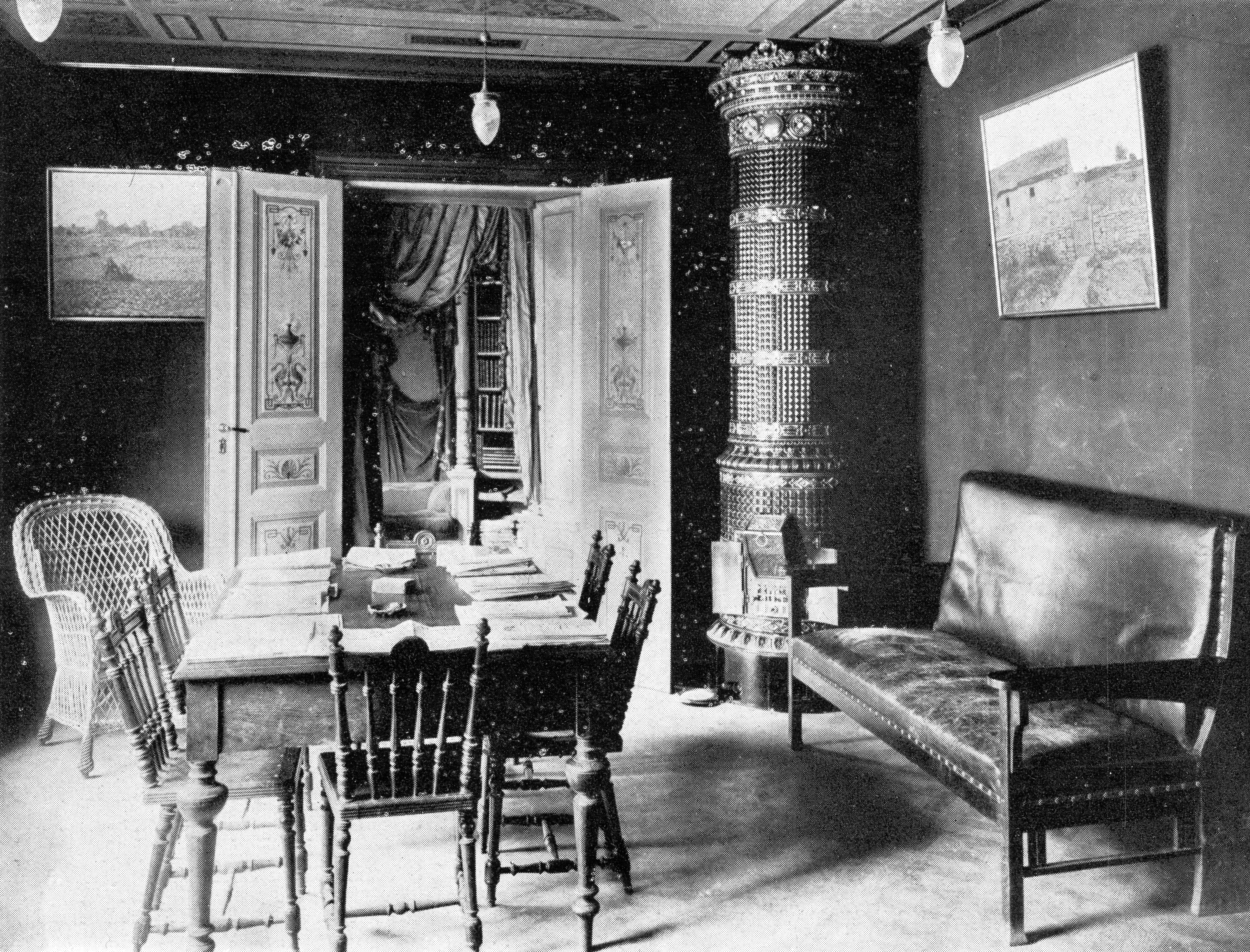 Kalmar Nation, Uppsala. First house 1913-1957. Reading room 1915.